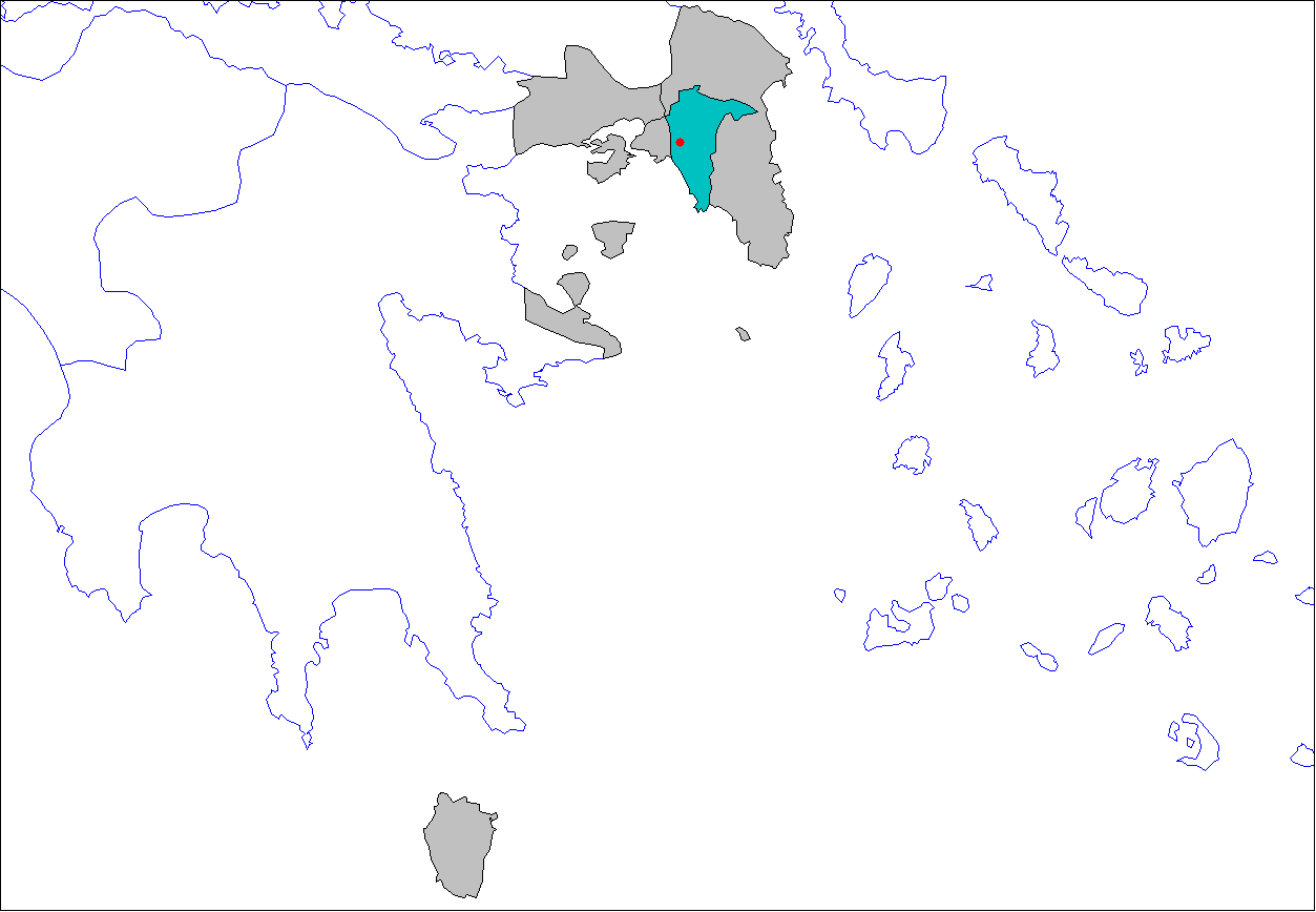 This image is used to show the location of Athens, within the Prefecture of Athens and within the Periphery of Attica.